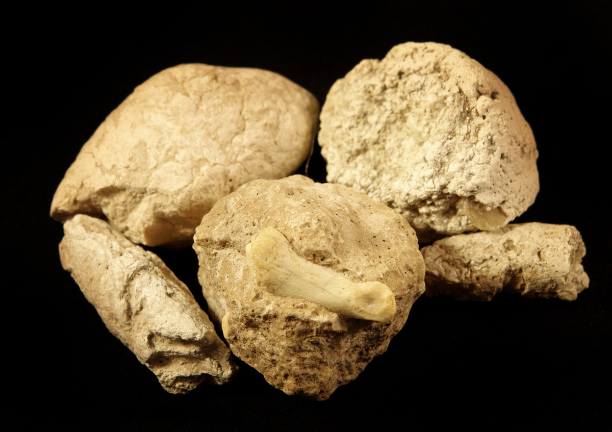 Age: White River Oligocene; Location: Northwest Nebraska; Dimensions: Varies (25mm X 20mm); Weight: 8-10g; Features: Many small inclusions and one has a complete toe bone from a small deer called a leptomeryx.